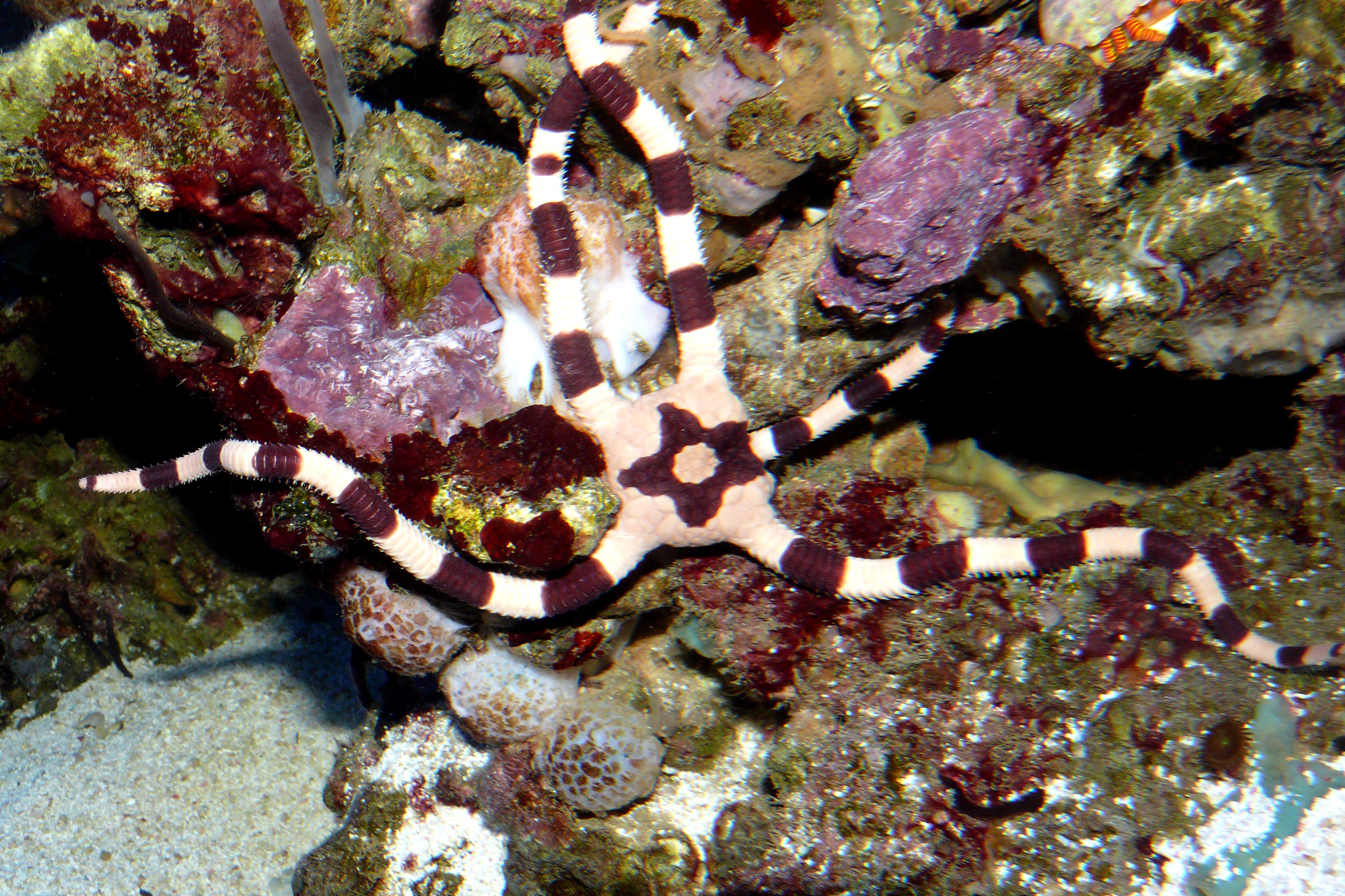 Ophiolepis superba